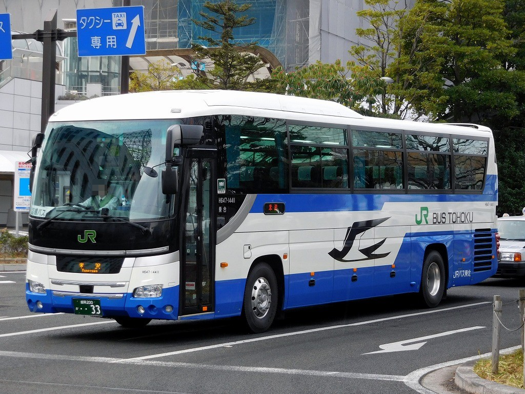 JR bus Tohoku Hino S'elega (QRG-RU1ESBA)highwaybus "Sendai-Yonezawa"